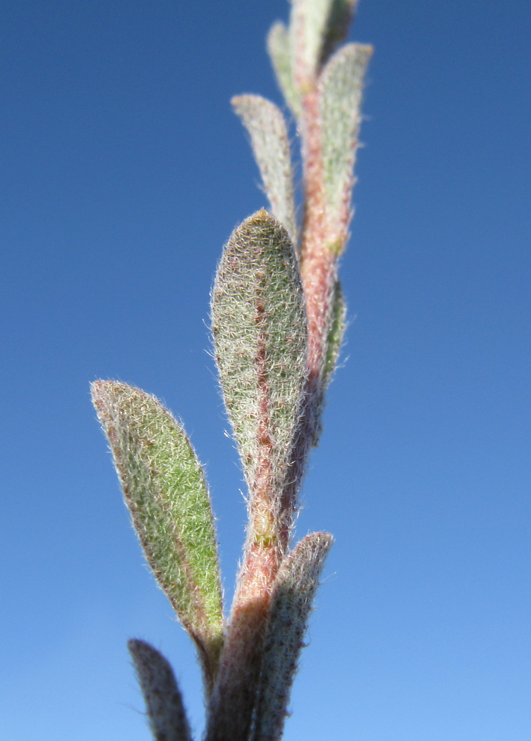 Introduced, cool season, annual, wiry, erect, grey-tomentose herb to 30 cm tall; hairs are stellate and appressed. Leaves are more or less oblanceolate, to 30 mm long, entire, and sessile or petiolate. Flowerheads are racemes of small (2–3 mm long) yellow flowers. Fruit are nearly circular siliculas to 6 mm long. Flowers in spring. These plants were growing in abundance adjacent to Cooma Common on the Southern Tablelands.